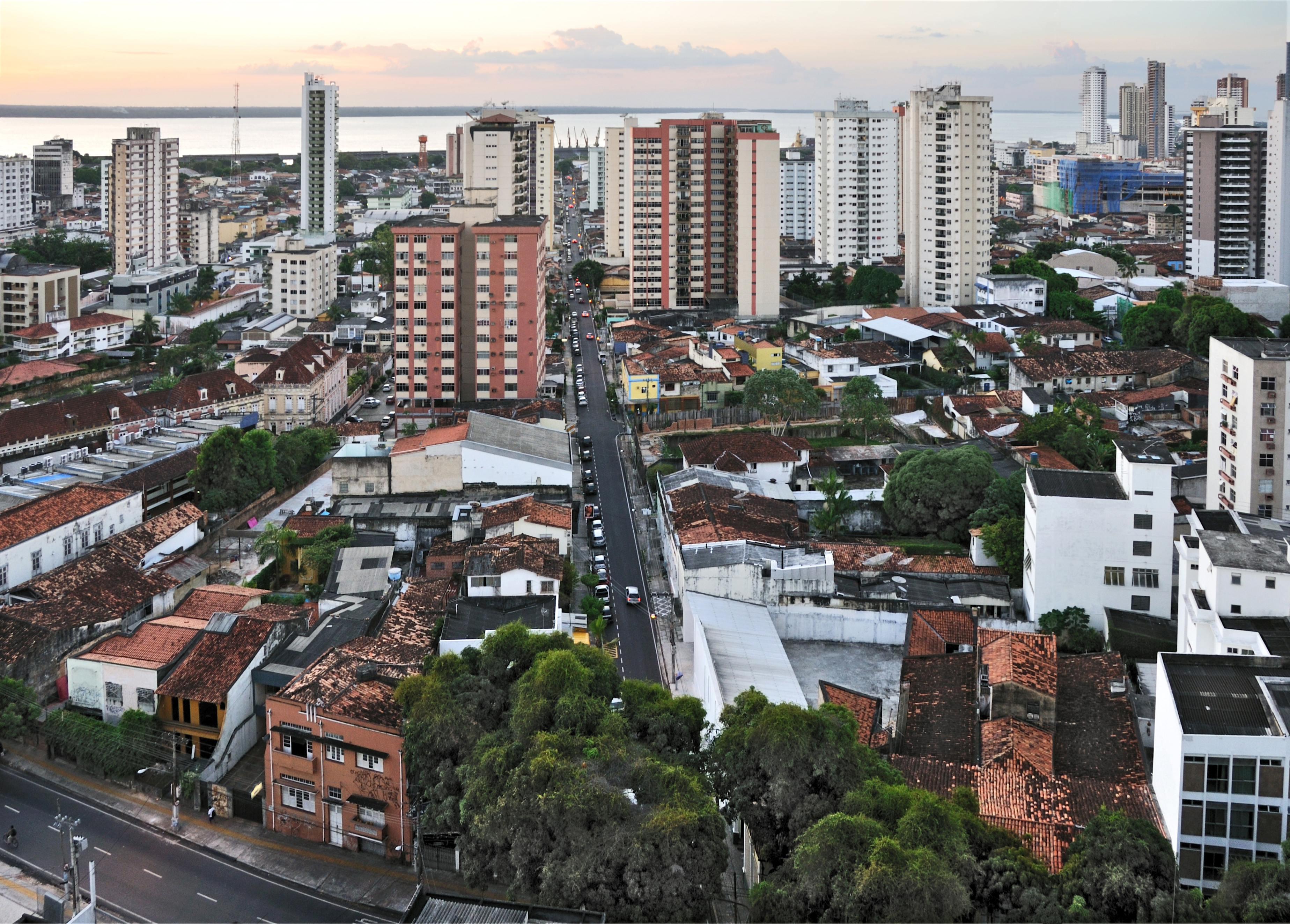 Belém, Brazil, seen from the roof of Crowne Plaza Hotel located in avenida Nazaré